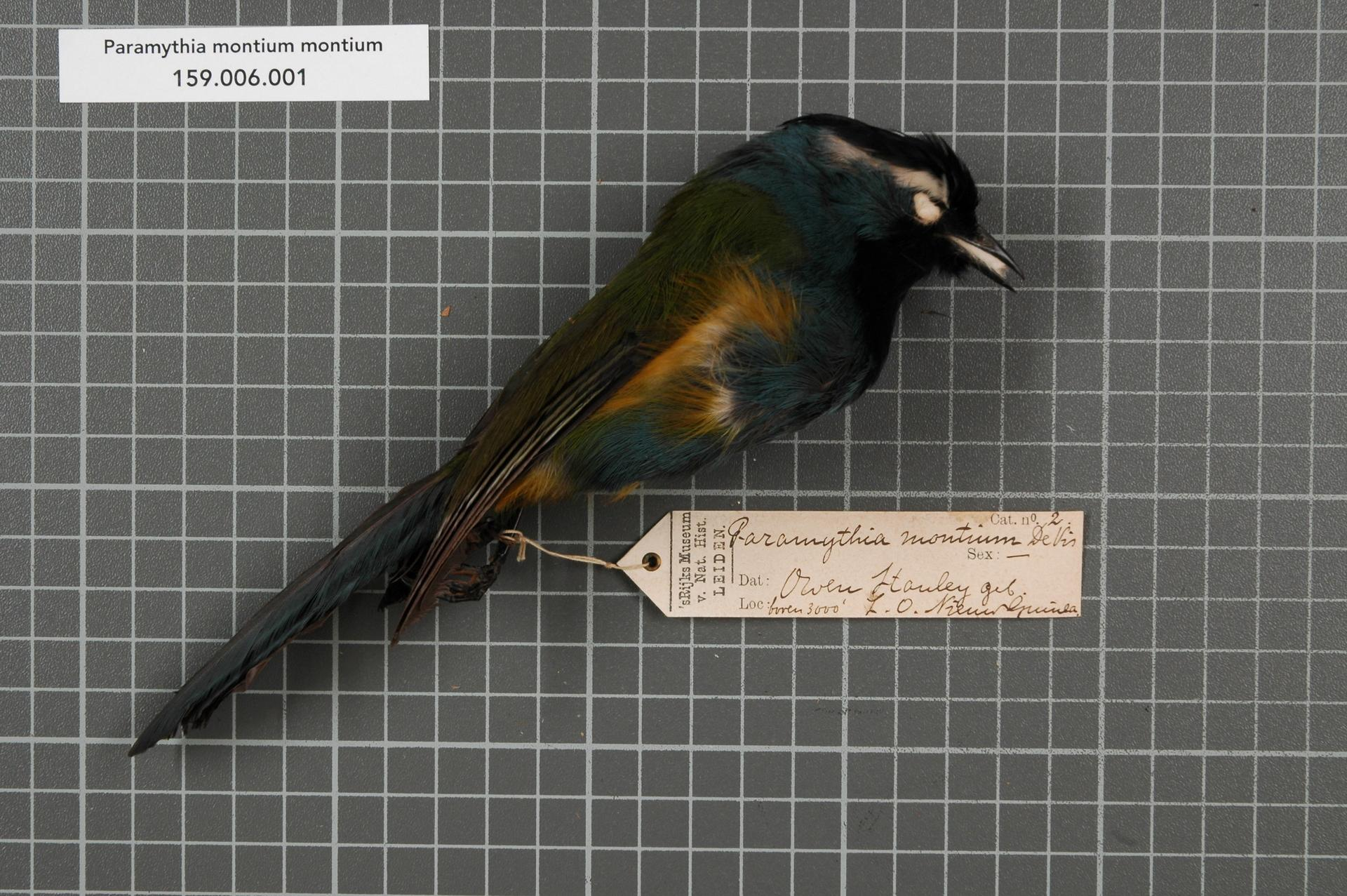 Paramythia montium montium De Vis, 1892